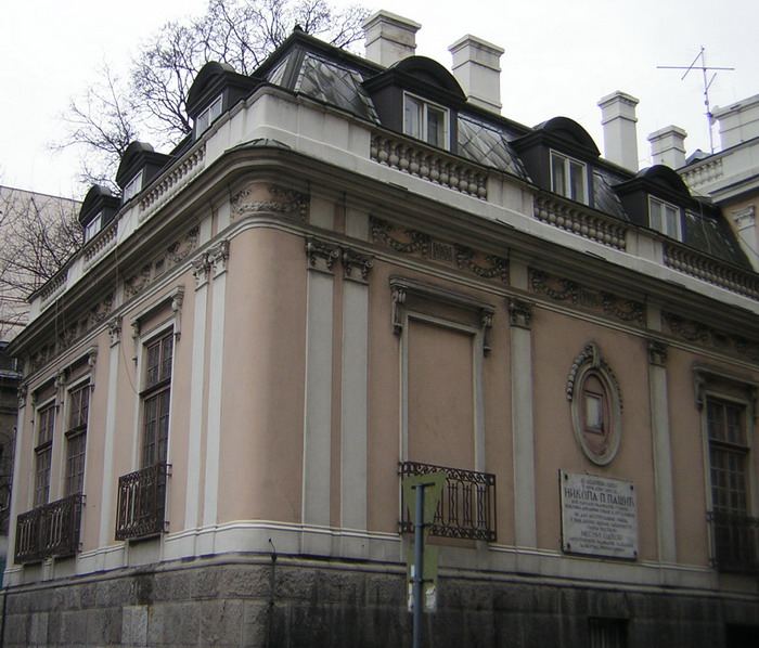 House in witch Nikola Pasic died